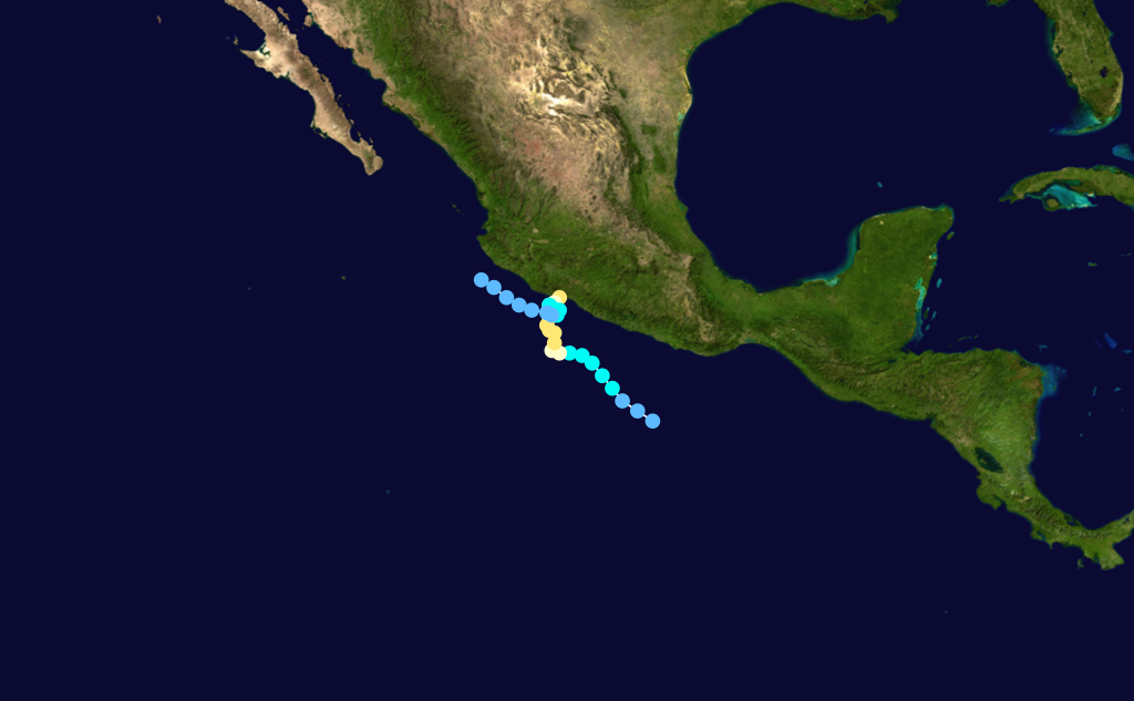 Hurricane Alma (1996) track. Uses the color scheme from the Saffir-Simpson Hurricane Scale.